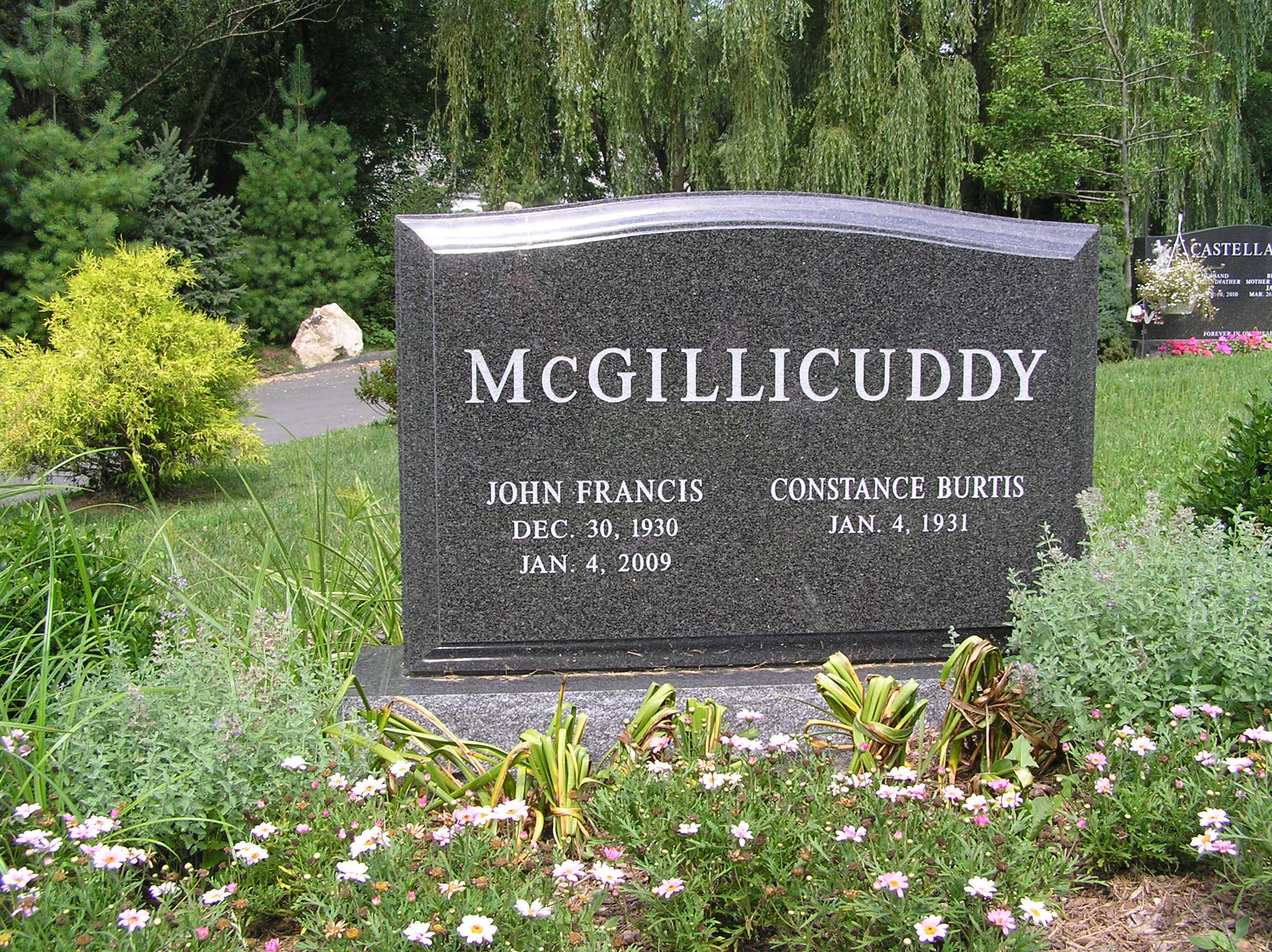 The gravesite of John McGillicuddy in Greenwood Union Cemetery, Rye, NY.